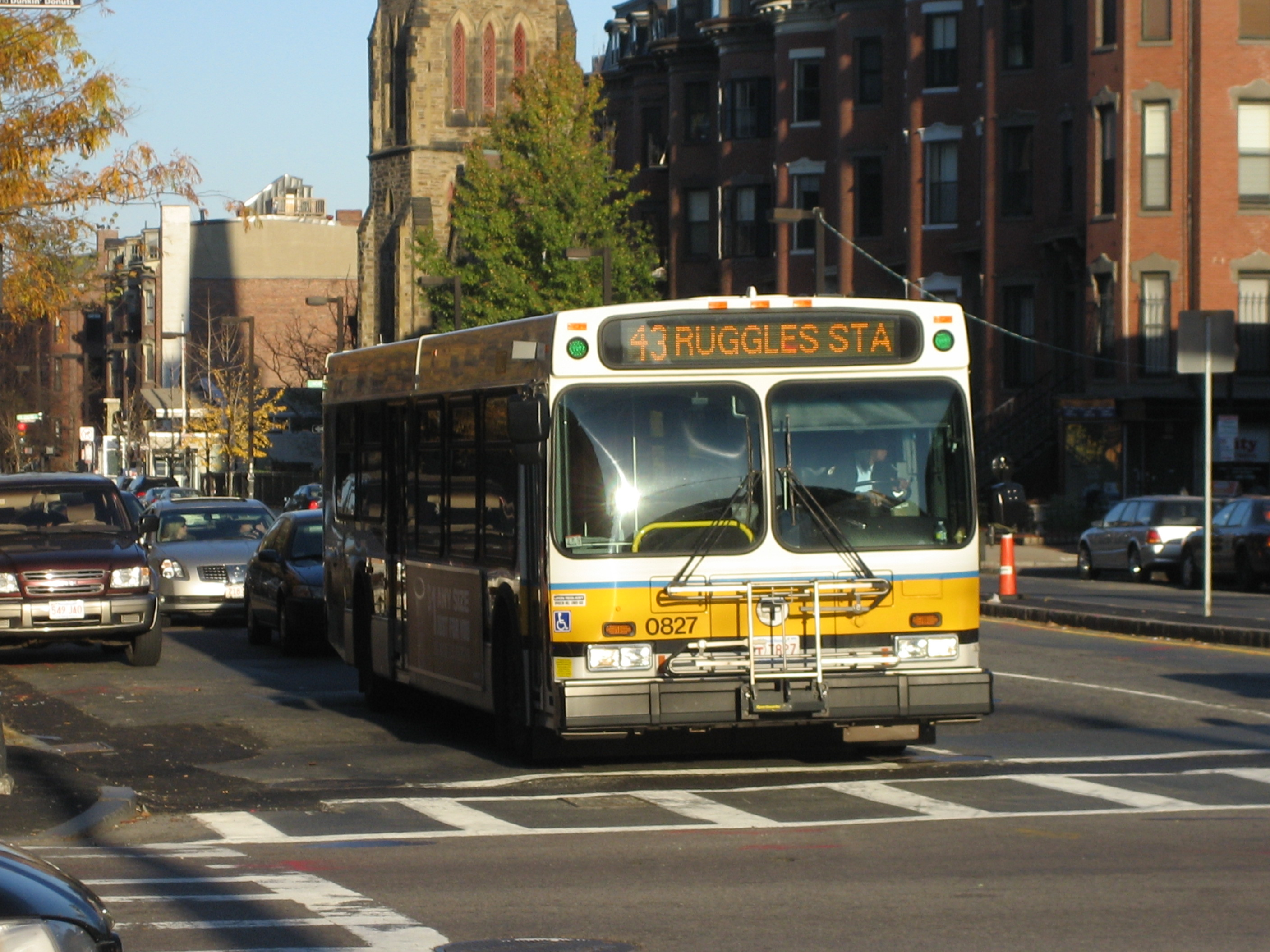 MBTA bus on route 43 on Tremont Street traveling towards Ruggles Station